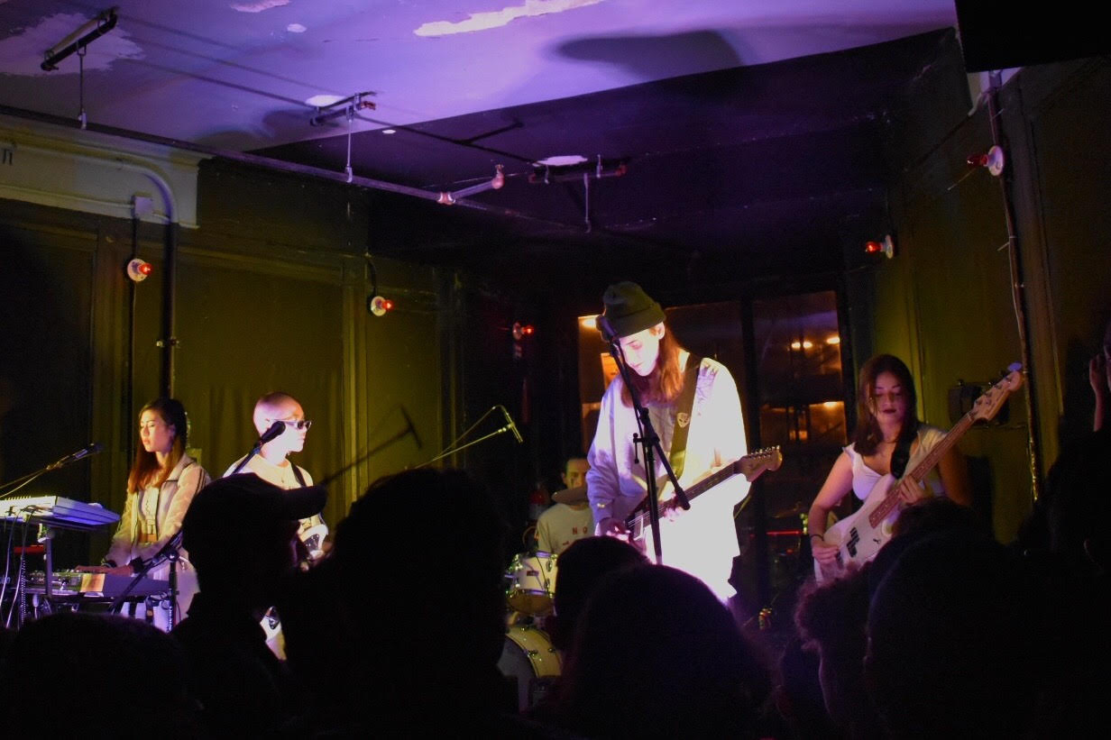 No Vacation performing in New York City, December 2018.